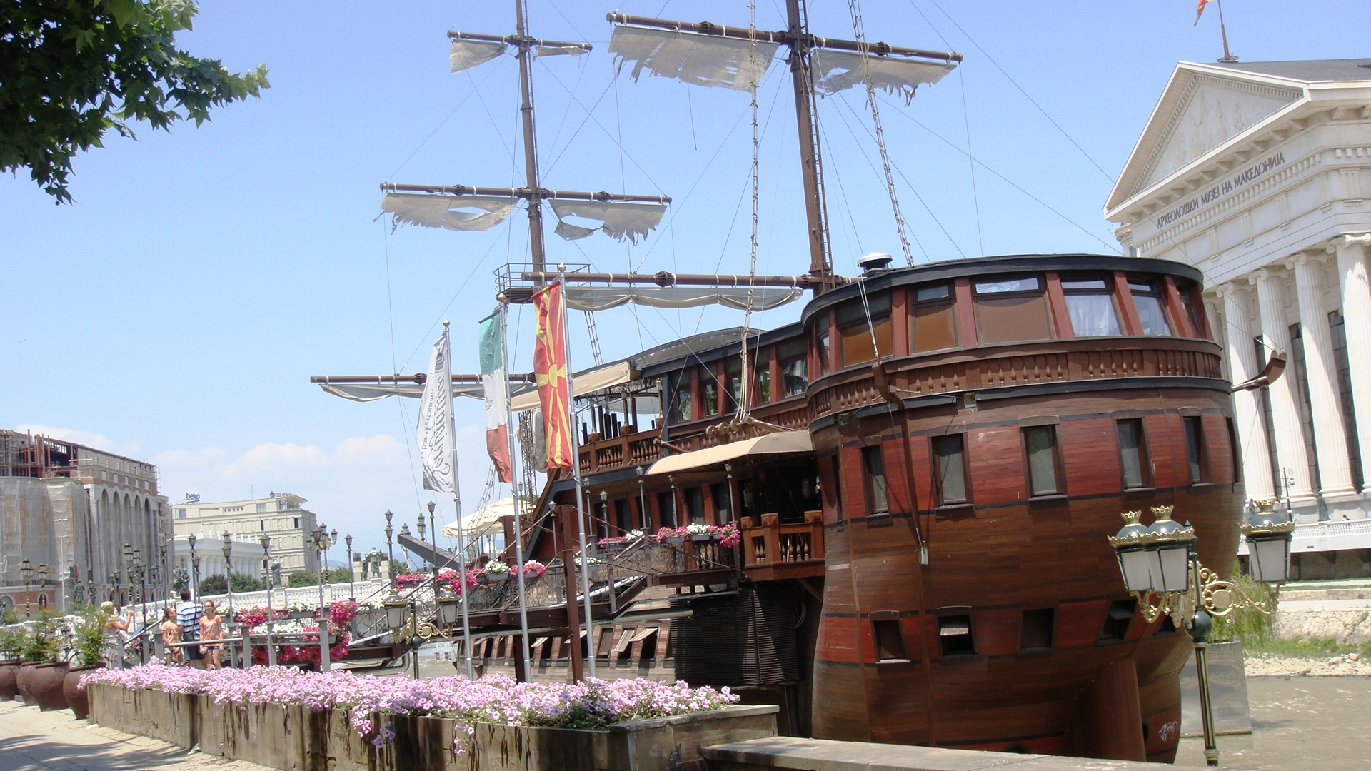 Ship in the river Vardar, which is a restaurant, Skopje